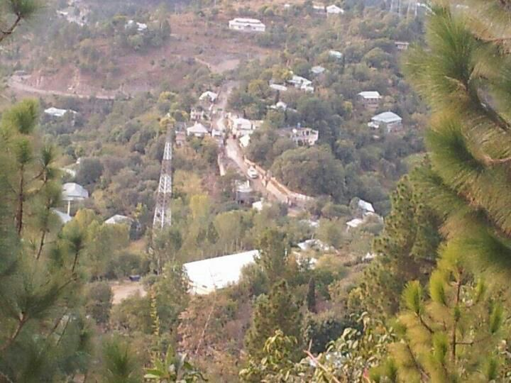 View of chaman kot